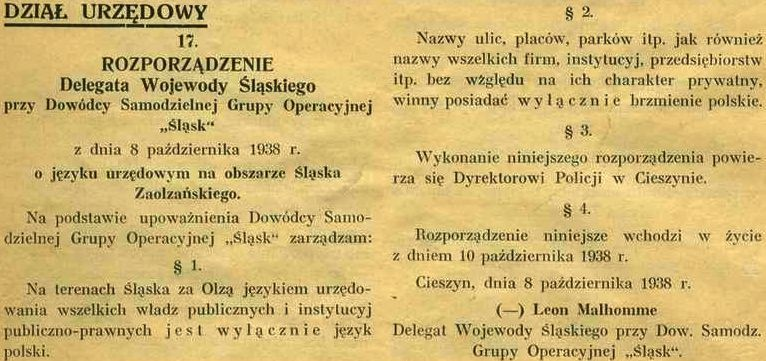 Decree on official language on the Trans-Olza/Olše/Olsa Silesia territory (in Polish "Śląsk Zaolzański") after being forcibly annexed by Poland in October 1938 (before the annexation the territory was part of Czechoslovakia and now it is part of the Czech Republic and, to a very small extent, also Slovakia). The decree was made by the Deputy of the Silesian Voivode on 8th October, 1938 in Cieszyn Zachodni (Western Cieszyn, Český Těšín before the annexation) after the Polish Army seized the territory. The Decree declared the Polish Language to be the sole official language on the annexed territory. All names of streets, squares, parks, etc., as well as firm names, names of institutions, enterprises, etc., regardless of being public or private had to be in the Polish Language only. The Decree became effective as of the date of its publication on 10th October, 1938. The decree ended Czech-Polish bilinguality existing on the territory before its annexation and also ended usage of German for names of privately held firms, enterprises, and private institutions.